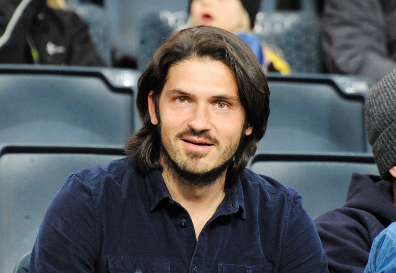 Bojan Djordjic at Friends Arena.